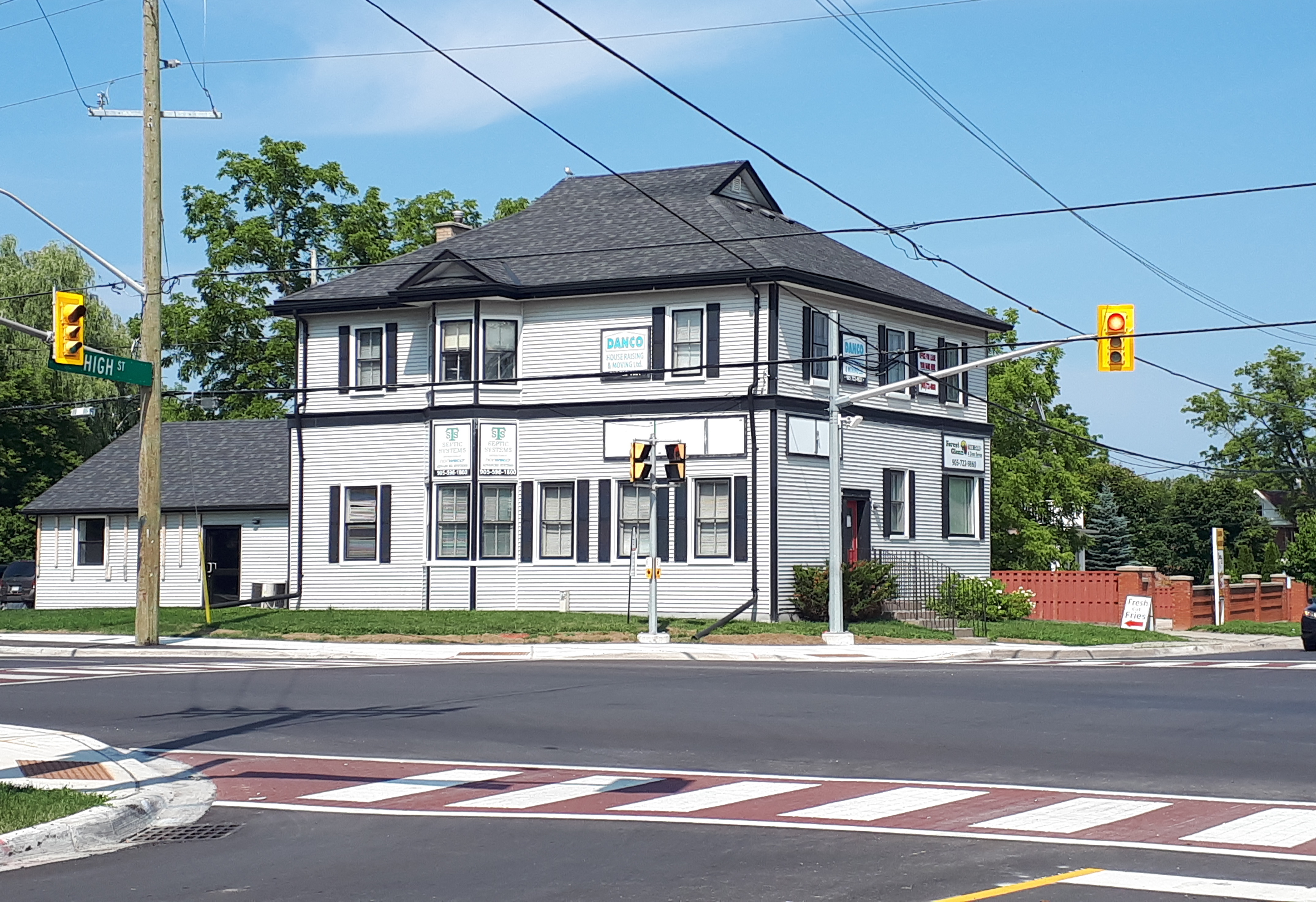 View of the Sutton Radial Station, Sutton, Ontario.ID 7787 in the Ontario Heritage Register database.Please follow the link below to view Metropolitan Radial Railway Station in the Ontario Heritage Act Register database